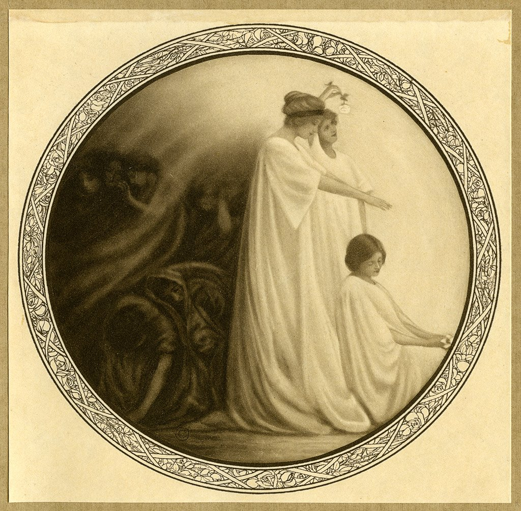 Sonnets from the Portuguese